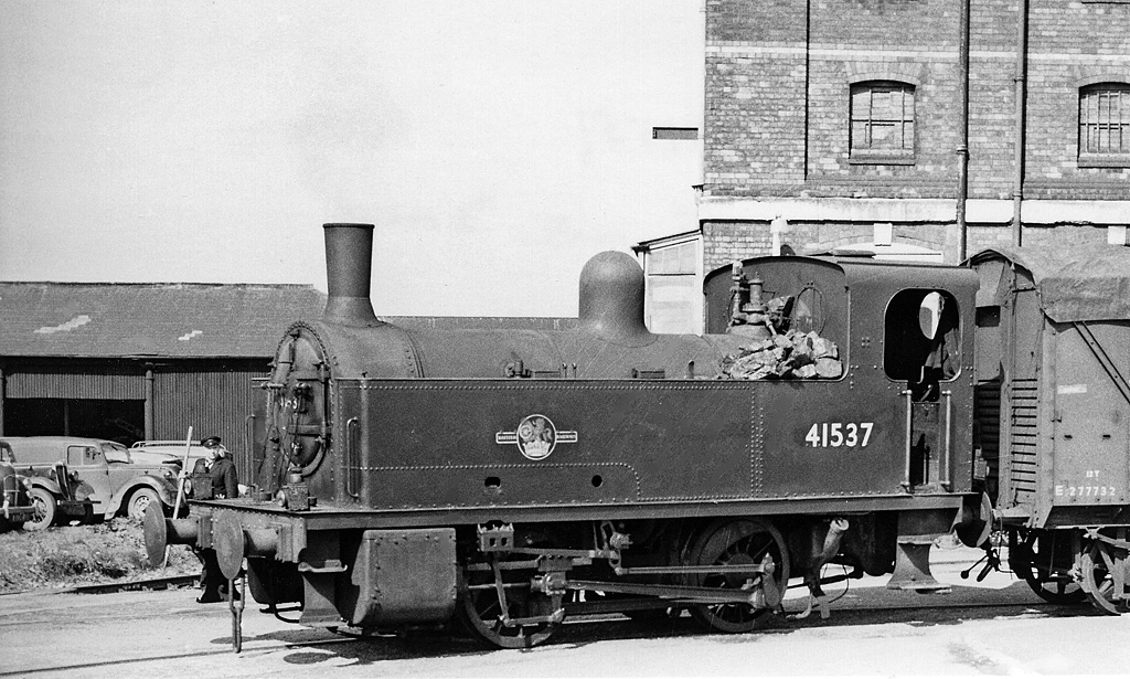 Shunting engine in Gloucester Docks. Off the Bristol Road, ex-Midland Deeley 0-4-0 Dock Tank No. 41537 is at work, where it stayed all the week.